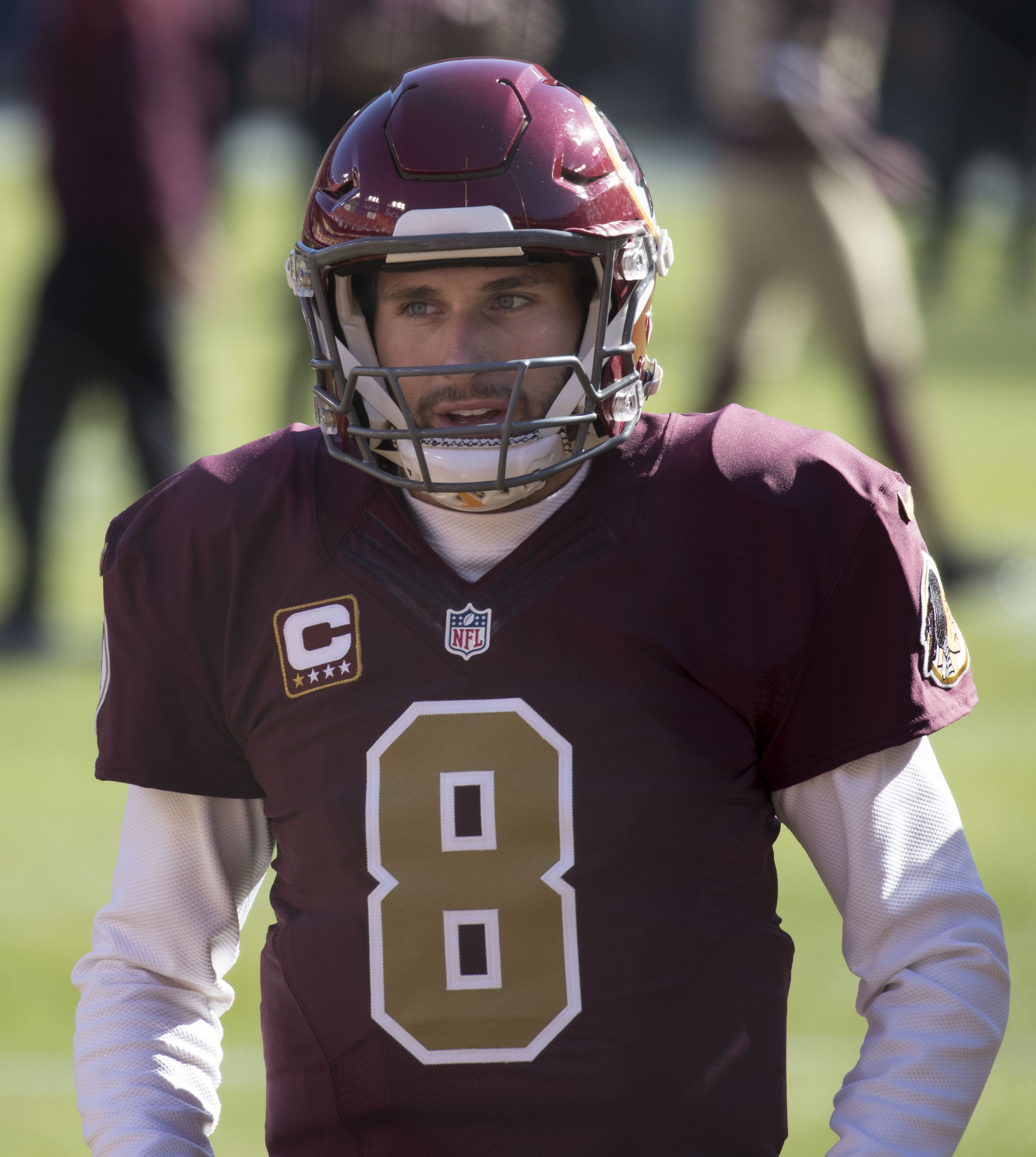 Vikings at Redskins 11/13/16